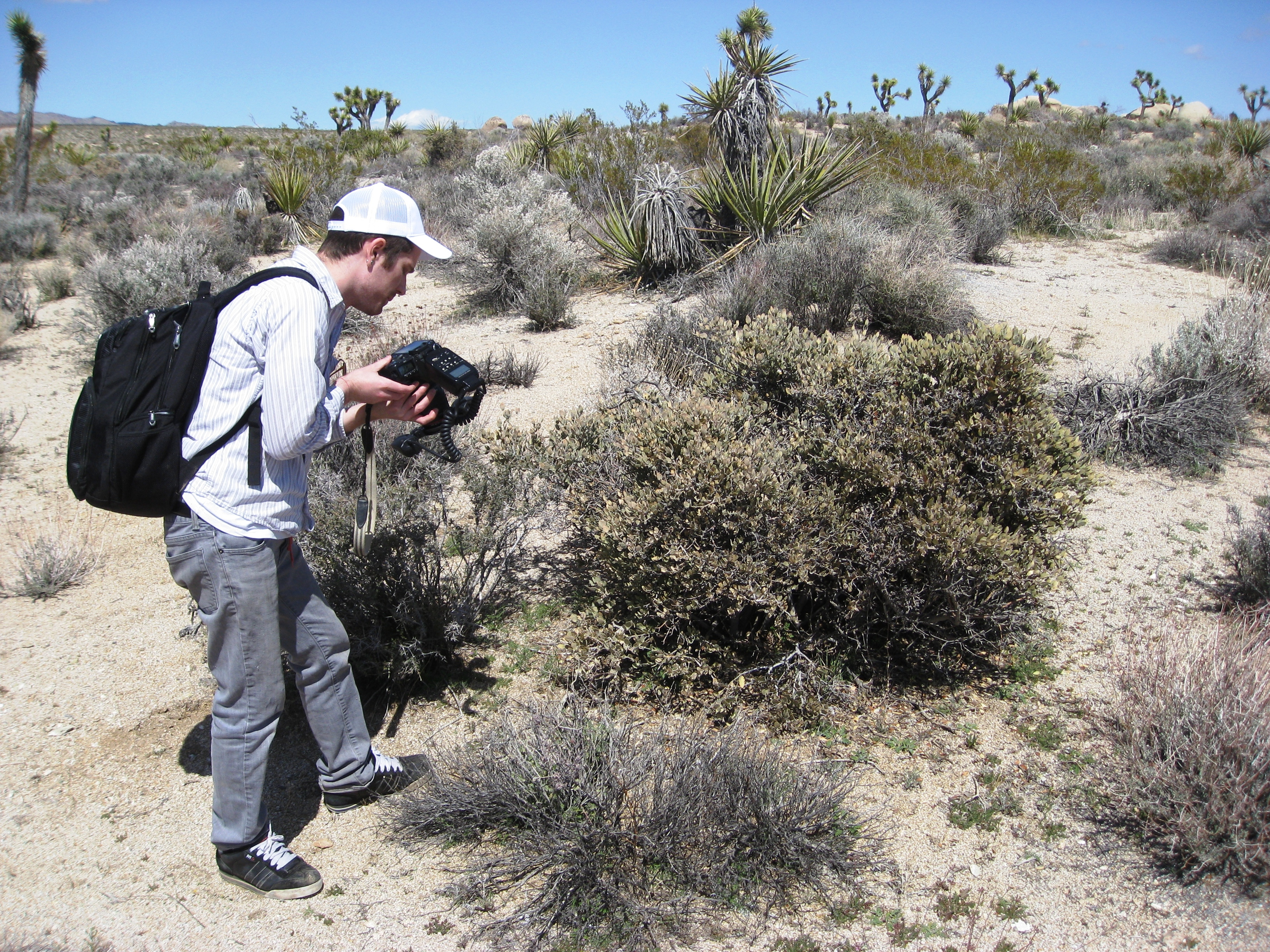 Simmondsia chinensis Jojoba Joshua Tree National Park jtz 050